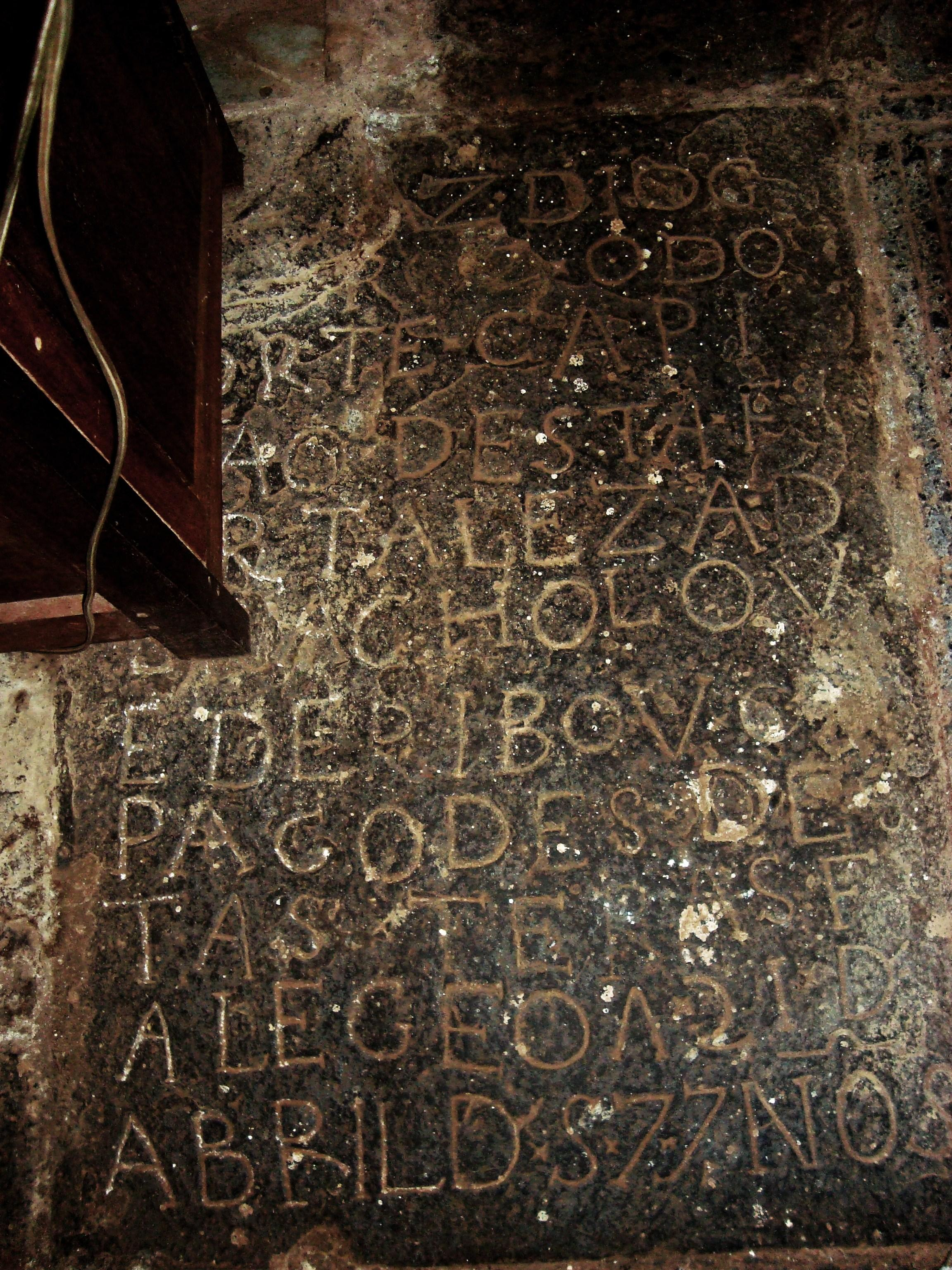 DIOGO RODRIGUES: RODRIGUES ISLAND, CAPTAIN OF RACHOL FORT, LANDLORD OF COLVA, GOVERNOR OF SALSETE